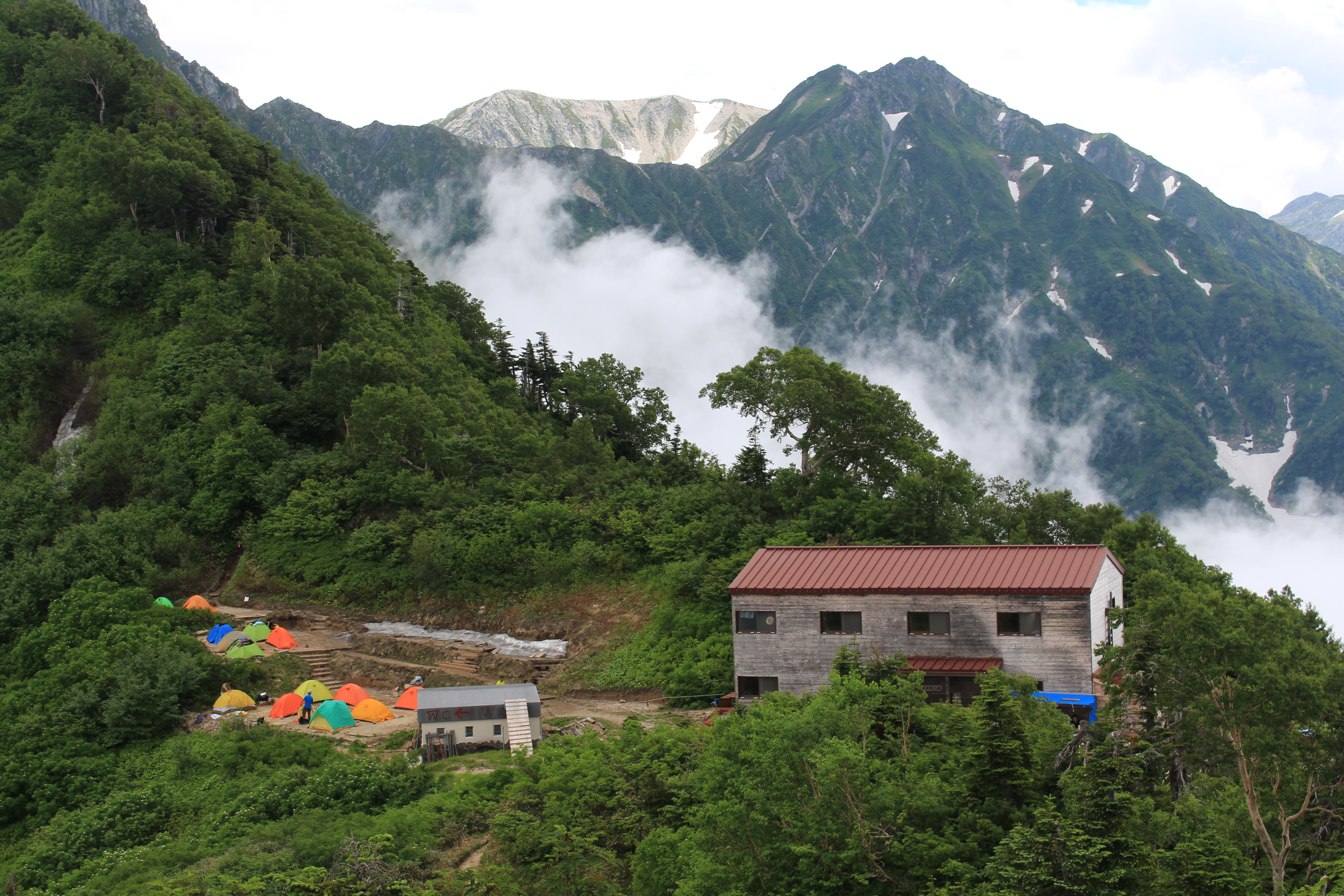 Hayatsukikoya, Tsurugigozen and Bessan seen from Hayatsuki ridge of Tsurugi, Kamiichi, Toyama prefecture, Japan.